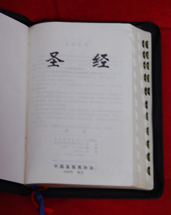 Chinese Bible Union Version (Heheben)